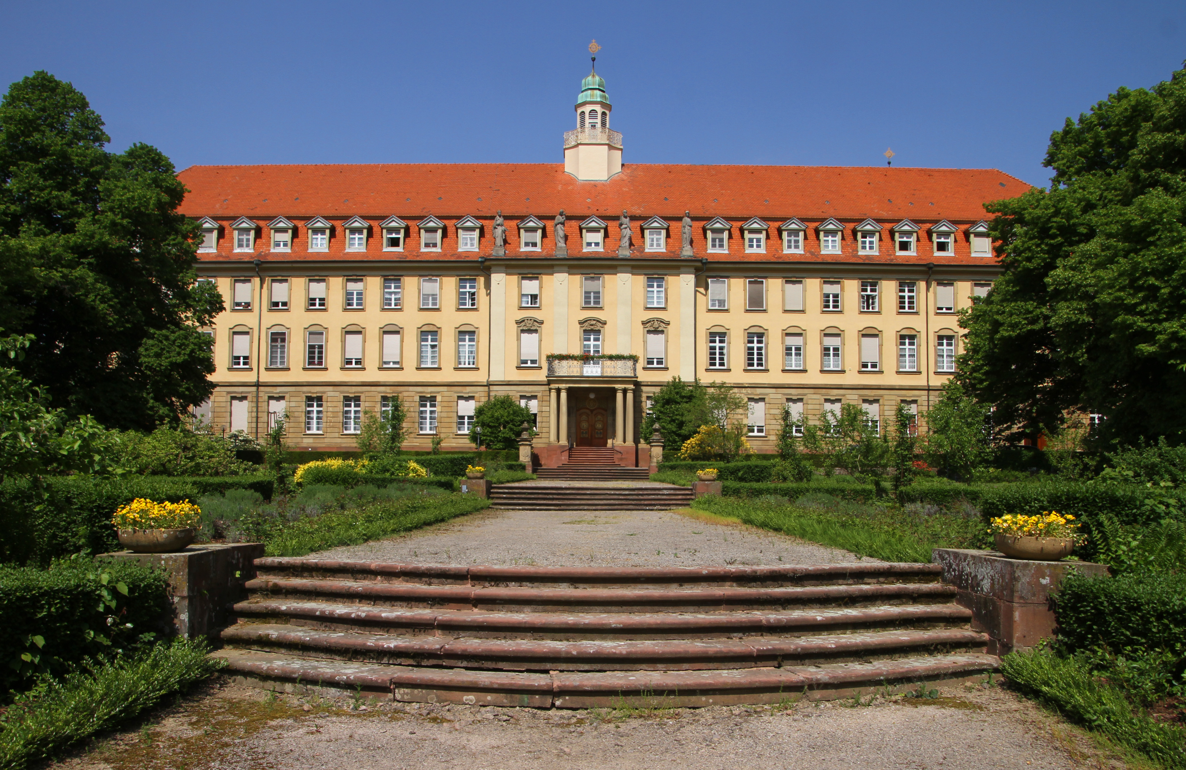 Nunnery Erlenbad in Sasbach (Ortenau)